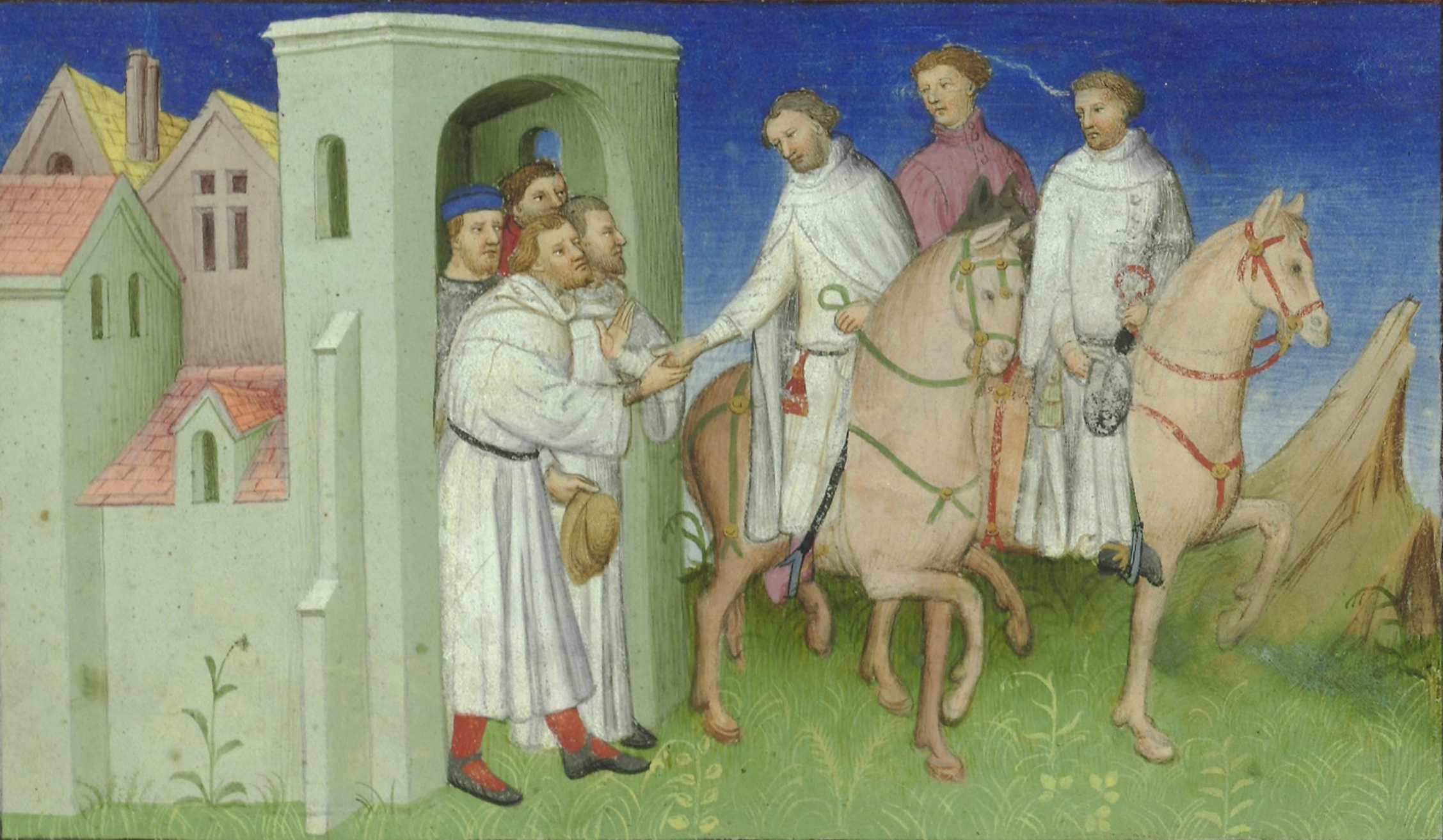 Polo brothers and Marco leaving Venice. MS BNF français 2810 f. 4r